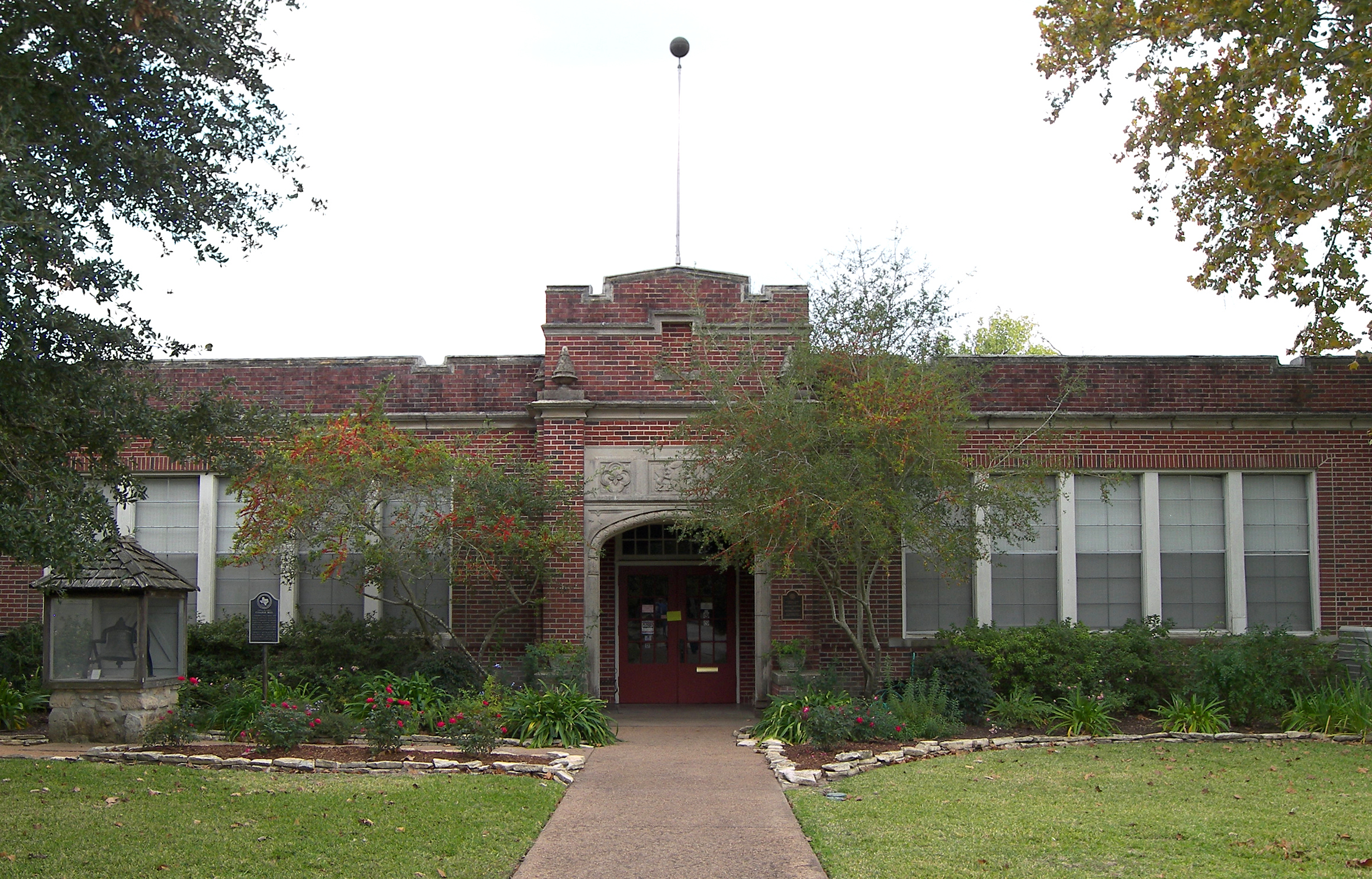 The Chappell Hill Public School located in Chappell Hill, Texas, United States. The building was listed on the National Register of Historic Places on February 20, 1985.